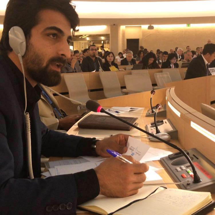 mohamad kassem safa, permanent representative of patriotic vision at united nations